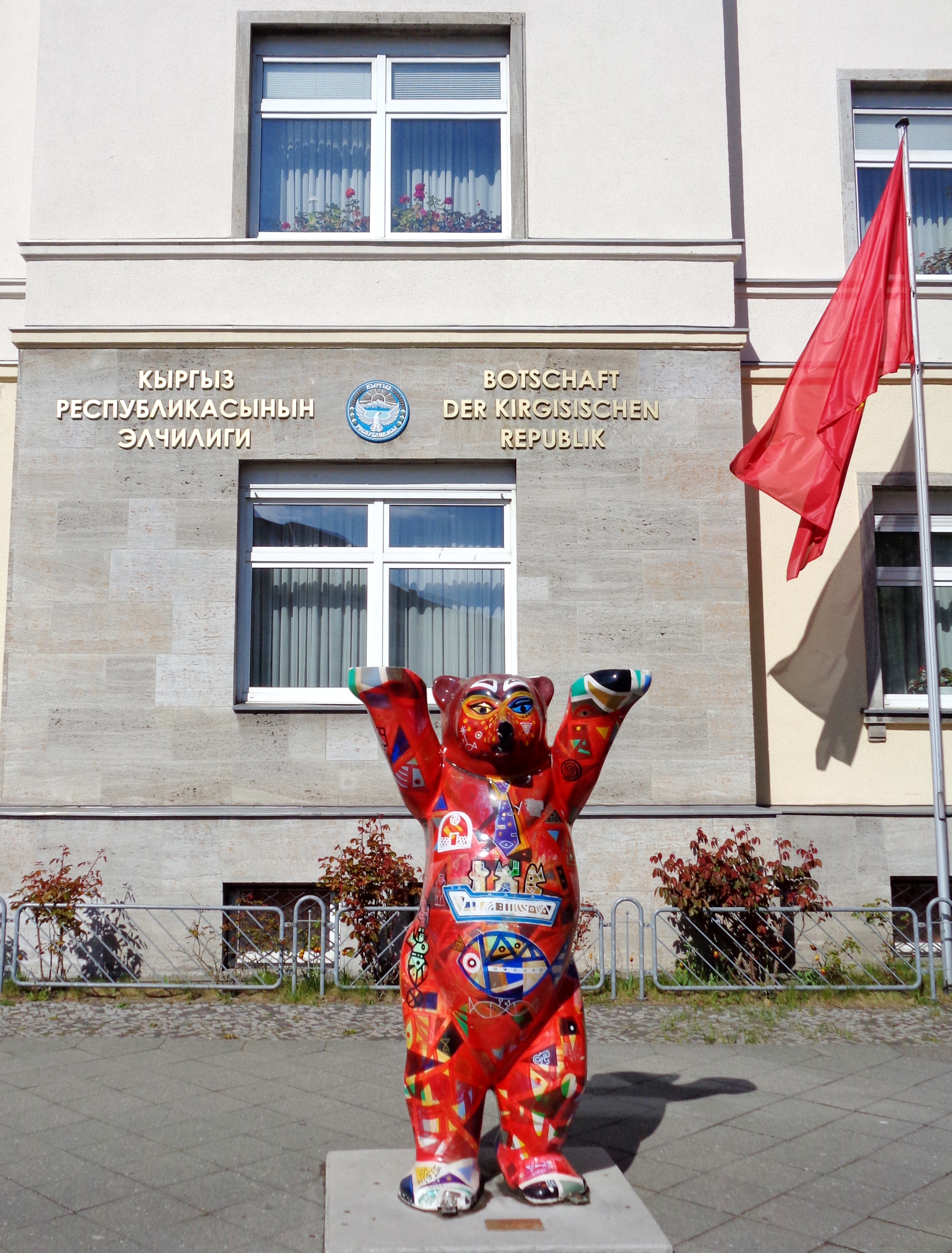 Embassy of the Kyrgyz Republic to Germany in Berlin